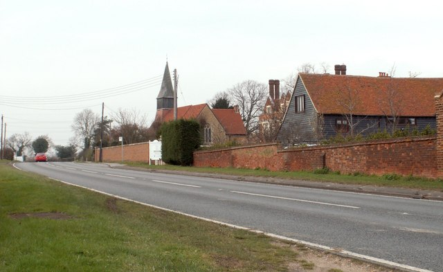 A view of Woodham Mortimer along the A414 This picture shows St. Margaret's church, a small part of Woodham Mortimer Hall and a barn conversion at Hall Farm. The church dates back to the Norman period but it is now essentially a 19th century rebuild.